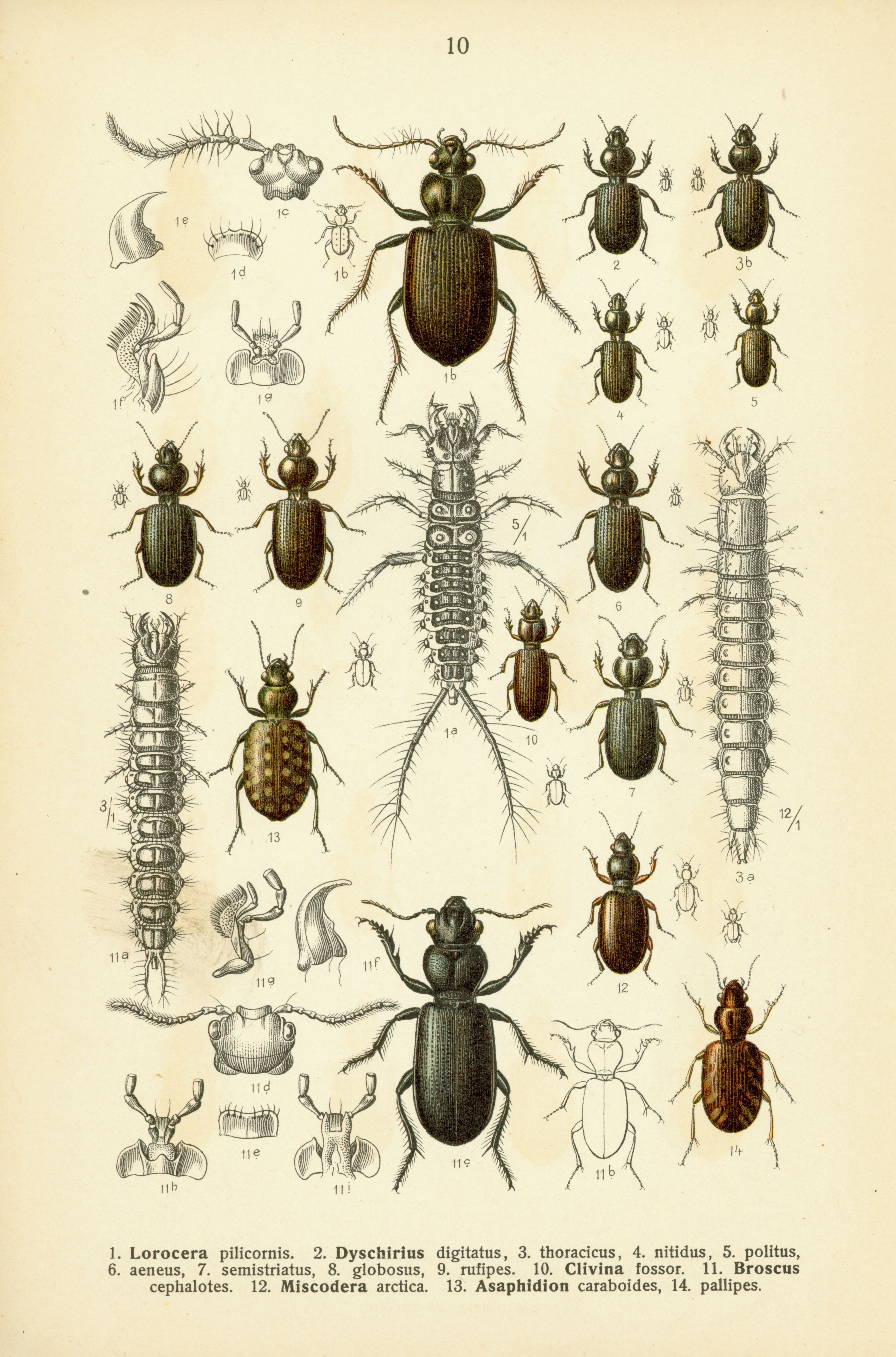 See image for index to numbers. Lorocera pilicornis Fabr. = Loricera pilicornis (Fabricius, 1775) (1a: larva, dorsal view, 1b: adult, dorsal view and size comparison, 1c: adult, head in dorsal view, 1d: labrum of adult, 1e: mandible of adult, 1f: maxilla of adult, 1g: labium of adult) Dyschirius digitatus Dej. = Dyschirius digitatus (Dejean, 1825), adult, dorsal view Dyschirius thoracicus Rossi. = Dyschirius thoracicus (P.Rossi, 1790) (3a: larva, dorsal view, 3b: adult, dorsal view) Dyschirius nitidus Dej. = Dyschiriodes nitidus (Dejean, 1825), adult, dorsal view Dyschirius politus Dej. = Dyschiriodes politus (Dejean, 1825), adult, dorsal view Dyschirius aeneus Dej. = Dyschiriodes aeneus (Dejean, 1825), adult, dorsal view Dyschirius semistriatus Dej. = Dyschiriodes semistriatus (Dejean, 1825), adult, dorsal view Dyschirius globosus Hrbst. = Dyschiriodes globosus (Herbst, 1783), adult, dorsal view Dyschirius rufipes Dej. = Dyschiriodes rufipes (Dejean, 1825), adult, dorsal view Clivina fossor L. = Clivina fossor (Linnaeus, 1758), adult, dorsal view Broscus cephalotes L. = Broscus cephalotes (Linnaeus, 1758) (11a: larva, dorsal view, 11b: adult, size comparison, 11c: adult, dorsal view, 11d: adult, head in dorsal view, 11e: labrum of adult, 11f: mandible of adult, 11g: maxilla of adult, 11h: labium of adult ventral view, 11i: labium of adult dorsal view) Miscodera arctica Payk. = Miscodera arctica (Paykull, 1798), adult, dorsal view Asaphidion caraboides Schrank. = Asaphidion caraboides (Schrank, 1781), adult, dorsal view Asaphidion pallipes Dftsch. = Asaphidion pallipes (Duftschmid, 1812), adult, dorsal view